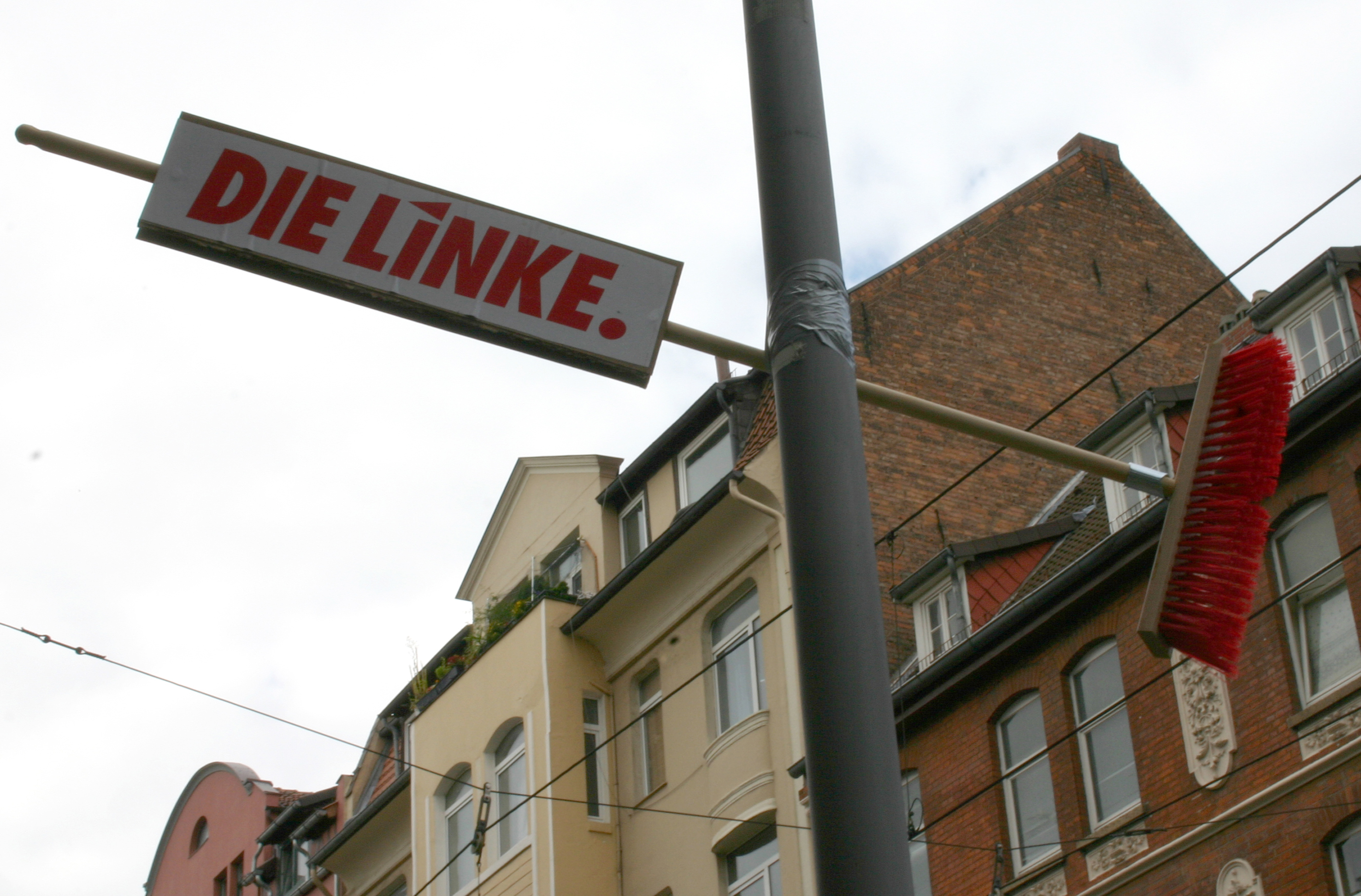 Election campaign of the Linkspartei in Germany, 2005